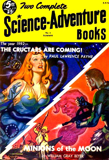 Cover, Two Complete Science Adventure Books, Summer 1952